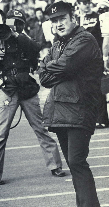 Photograph of Bo Schembechler in 1975.